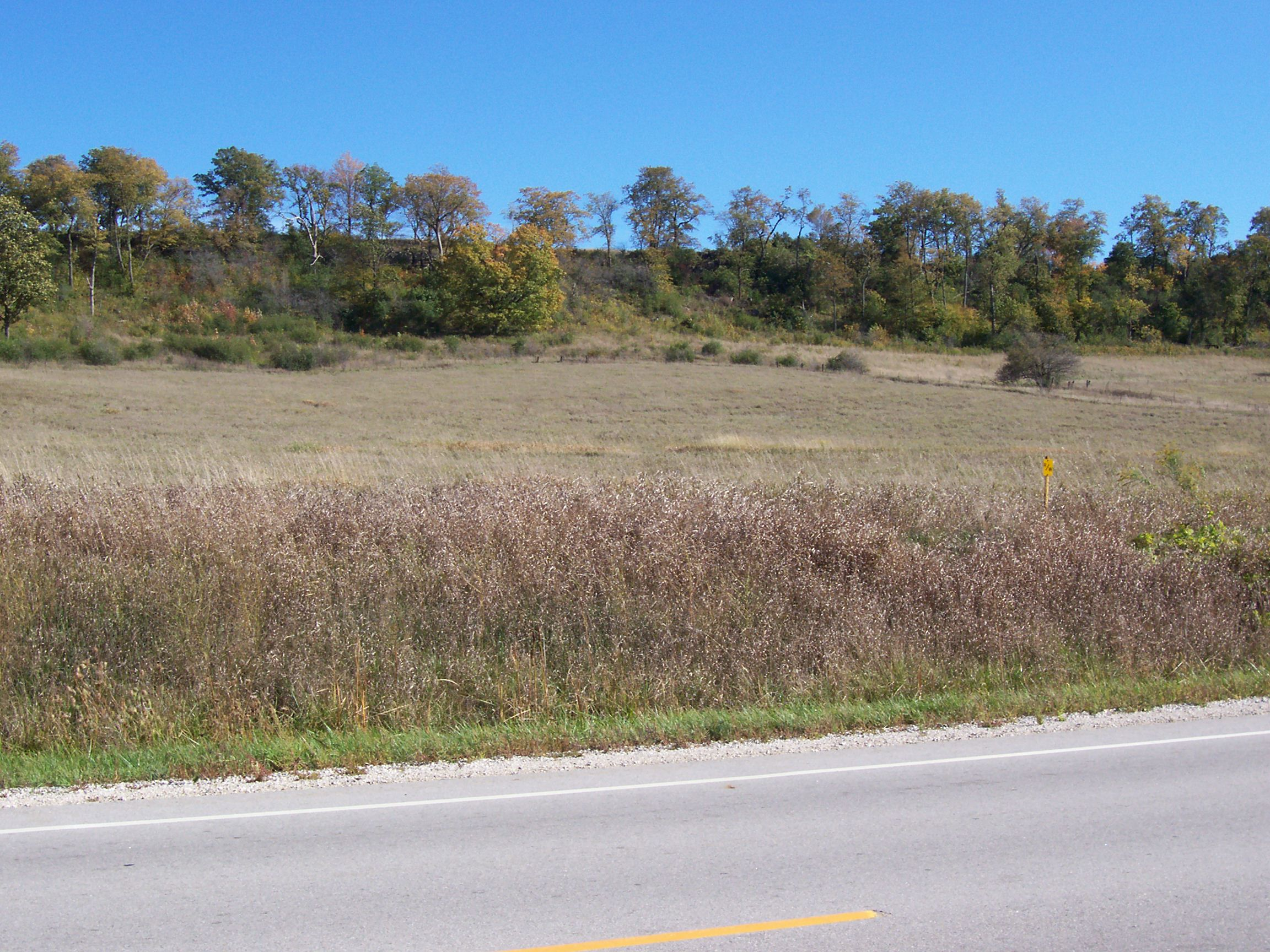 An image of the Niagara Escarpment from Highway 55 (Wisconsin) just south of County Highway F, approximately 5 miles south of Stockbridge, Wisconsin. The camera was roughly held level. This image was taken on September 26, 2006 by User:Royalbroil.